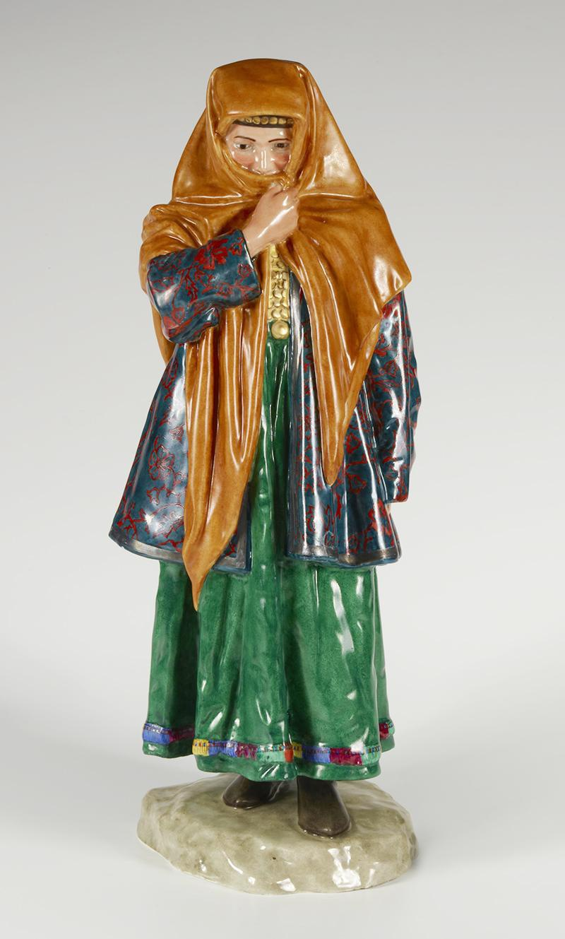 St.Petersburg. The Museum of the Imperial Porcelain Factory. Sculptures from the series "Peoples of Russia." "Great Russian Ryazan Governorate" (center). Models by P.P. Kamensky (1858-1922). Imperial Porcelain Factory, Russia. 1907-1917 gg. Porcelain, polychrome overglaze painting, gilding, silvering, platinum lustre, tooled.